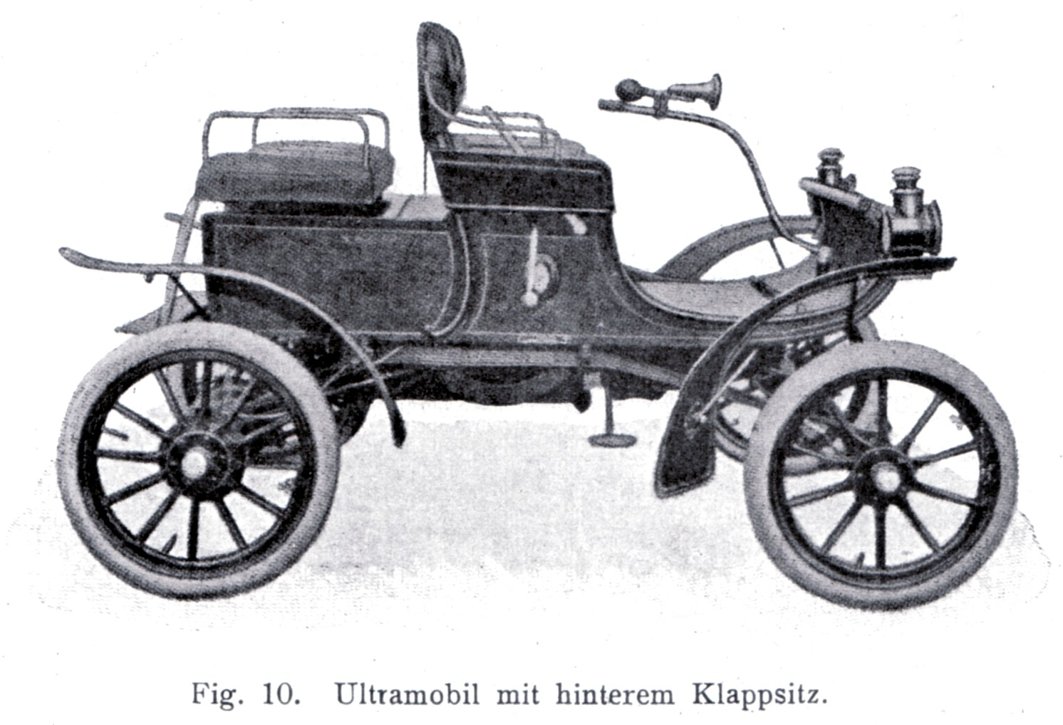 Ultramobil